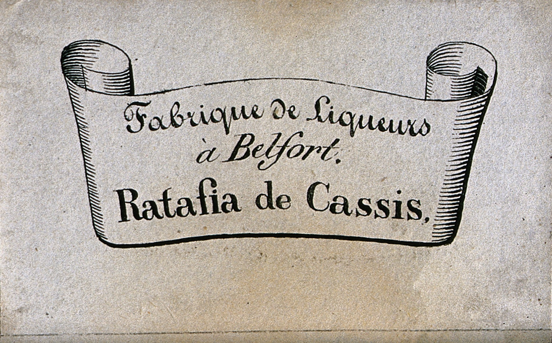 An ornamental liqueur label for "ratafia de cassis". Engraving, 19th century. Iconographic Collections